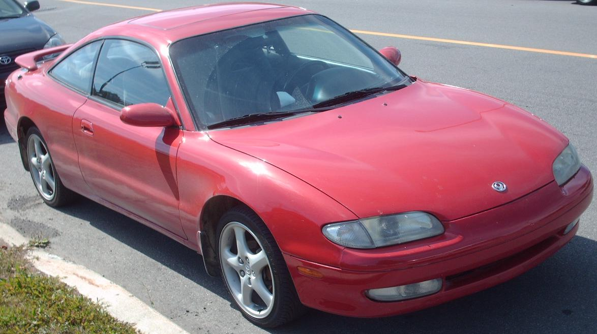 1993-1997 Mazda MX-6 Mystere photographed in Montreal, Quebec, Canada.